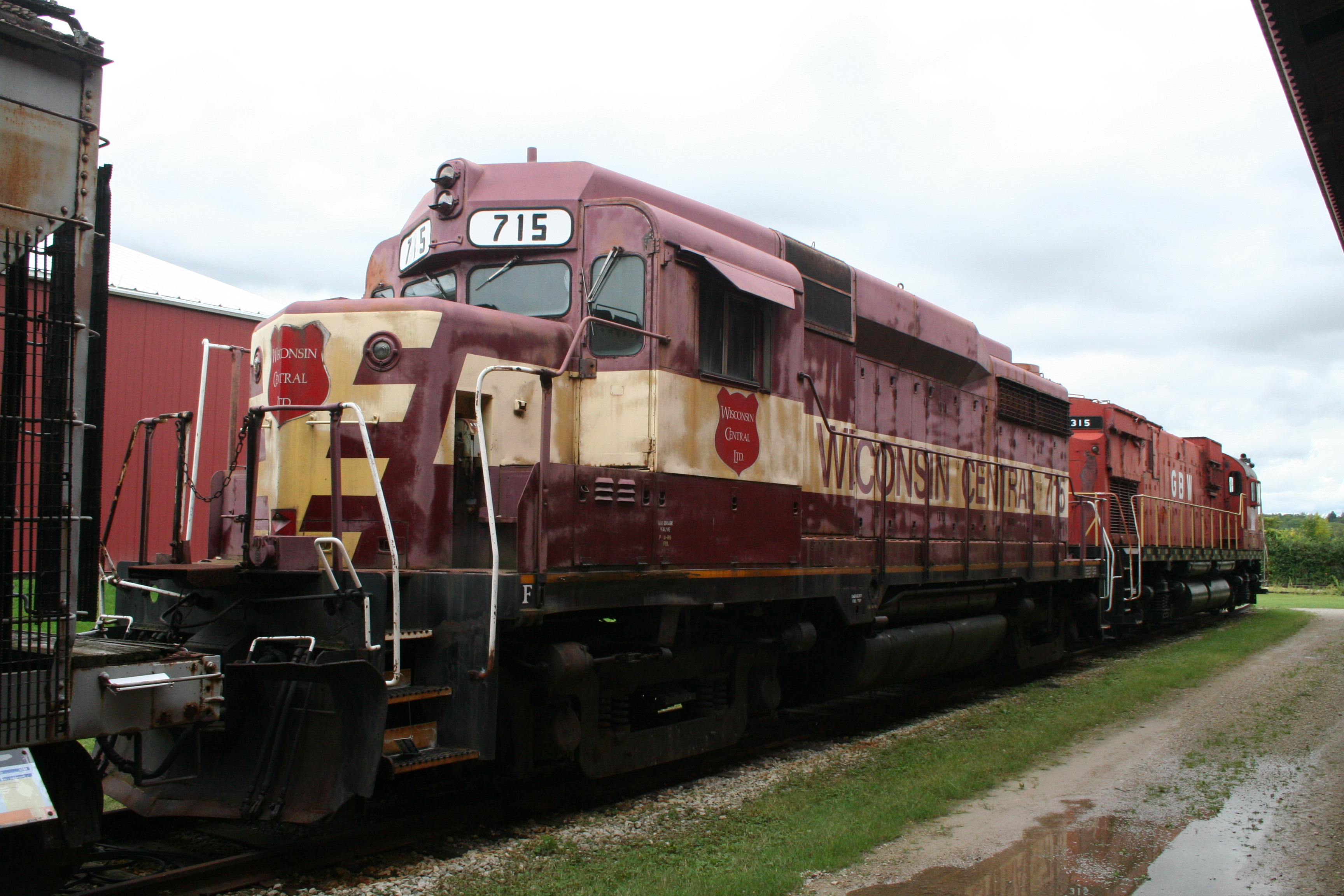 Soo Line Railroad EMD GP30 No. 715 (later Wisconsin Central Ltd No. 715) National Railroad Museum, Green Bay, WI